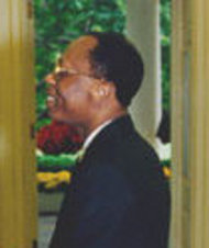 Jean-Bertrand Aristide meets Bill Clinton in the Oval Office, October 14, 1994.